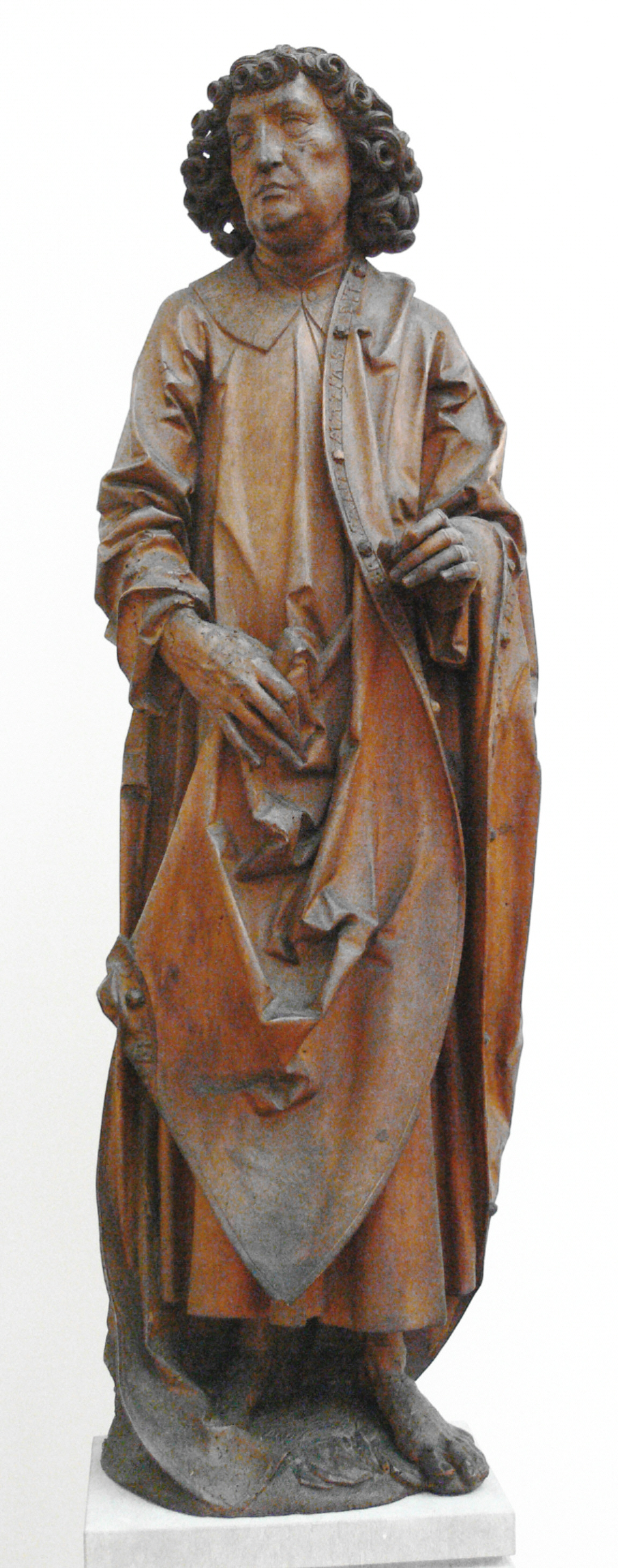 Tilman Riemenschneider: Saint Matthias, c. 1500/1505, limewood. Skulpturensammlung (inv. no. 3027, acquired in 1905), Bode-Museum Berlin.